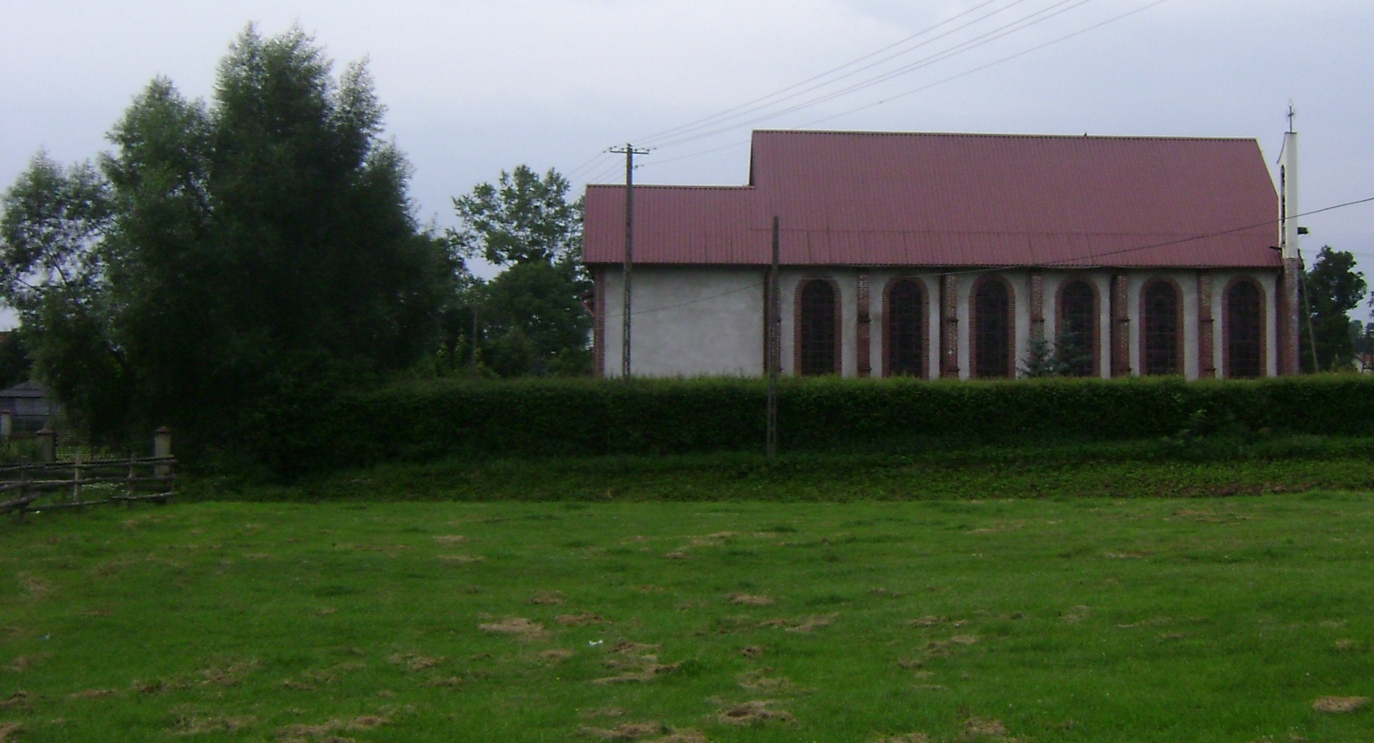 Our Lady Queen of Poland church in Napiwoda, Poland